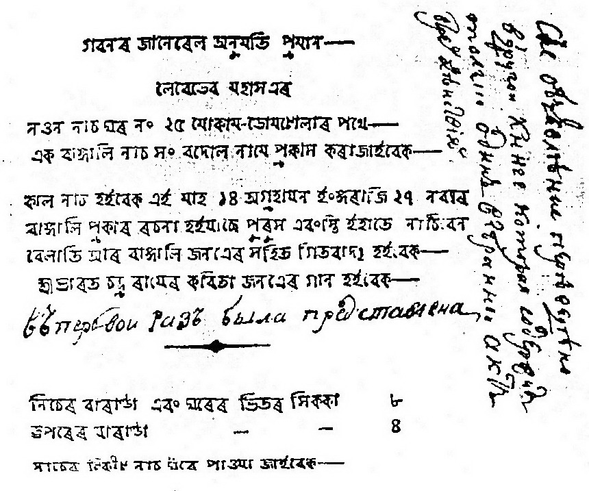 Playbill for the Bengali language on the first play Gerasim Lebedev with his handwritten notes.